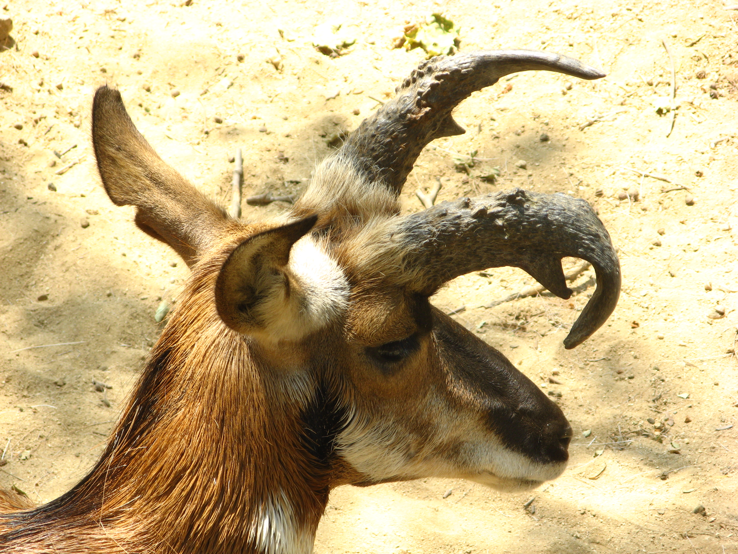 A Pronghorn in captivity at the Los Angeles Zoo